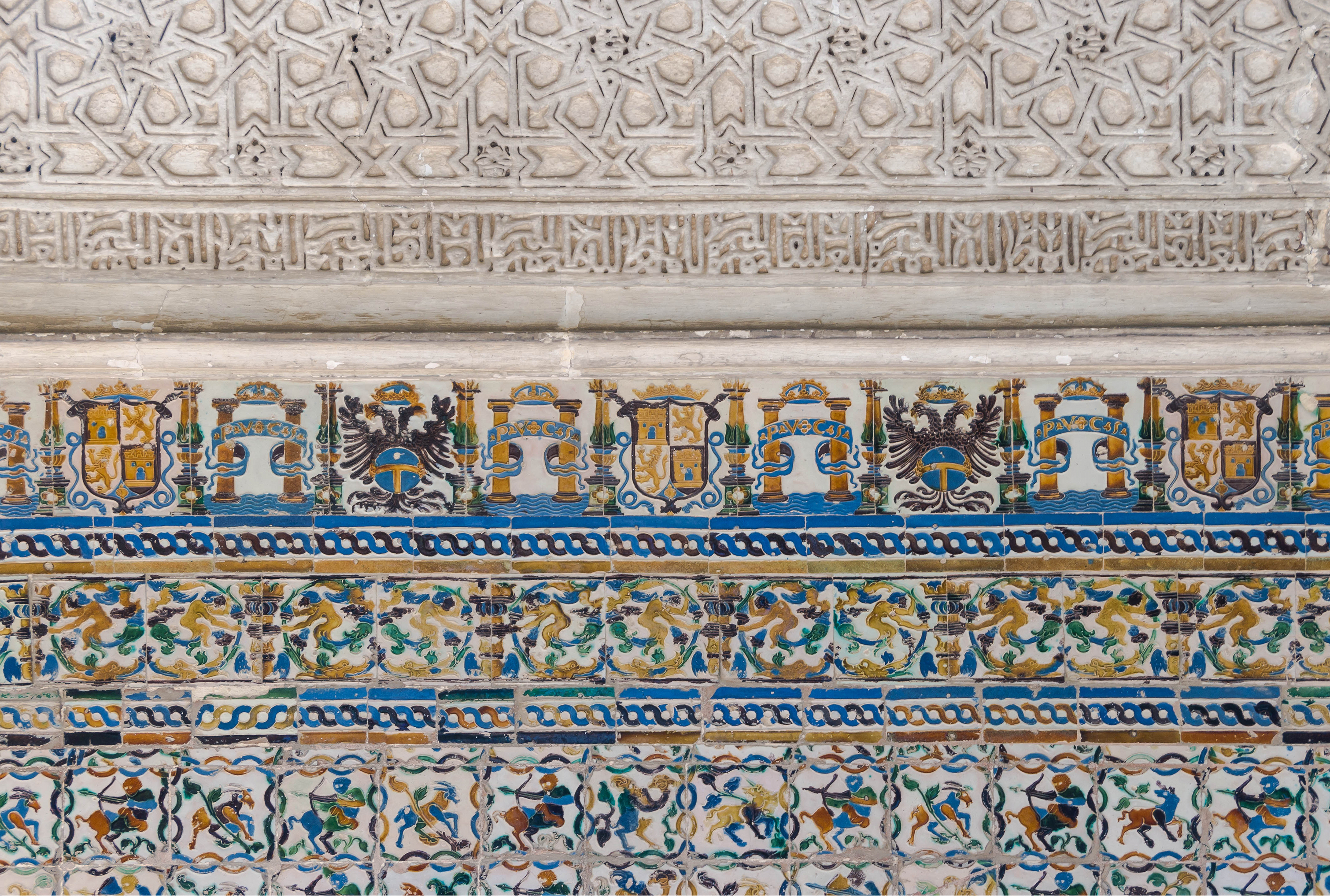 Mudejar and plateresque scenery, porcelain armorial tiles, "Cenador" of Charles V, Gardens of the Alcazar, Seville, Spain.